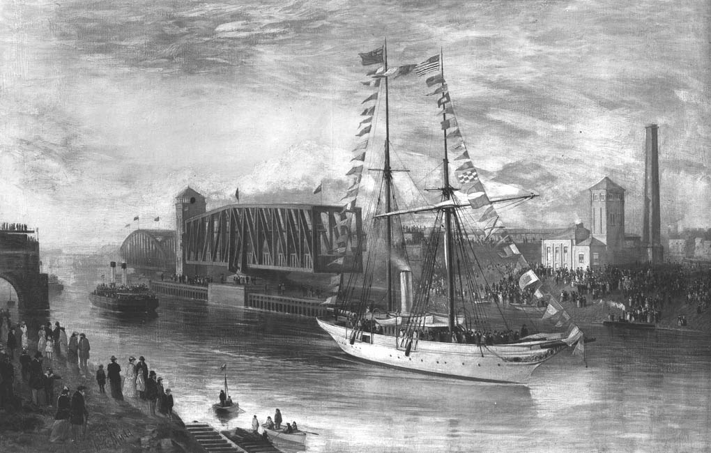 Opening of the Manchester Ship Canal by the yacht Norseman, 1894. Owner Mr. Platt with the Director's of the Ship Canal on board (From a painting by James Mudd)